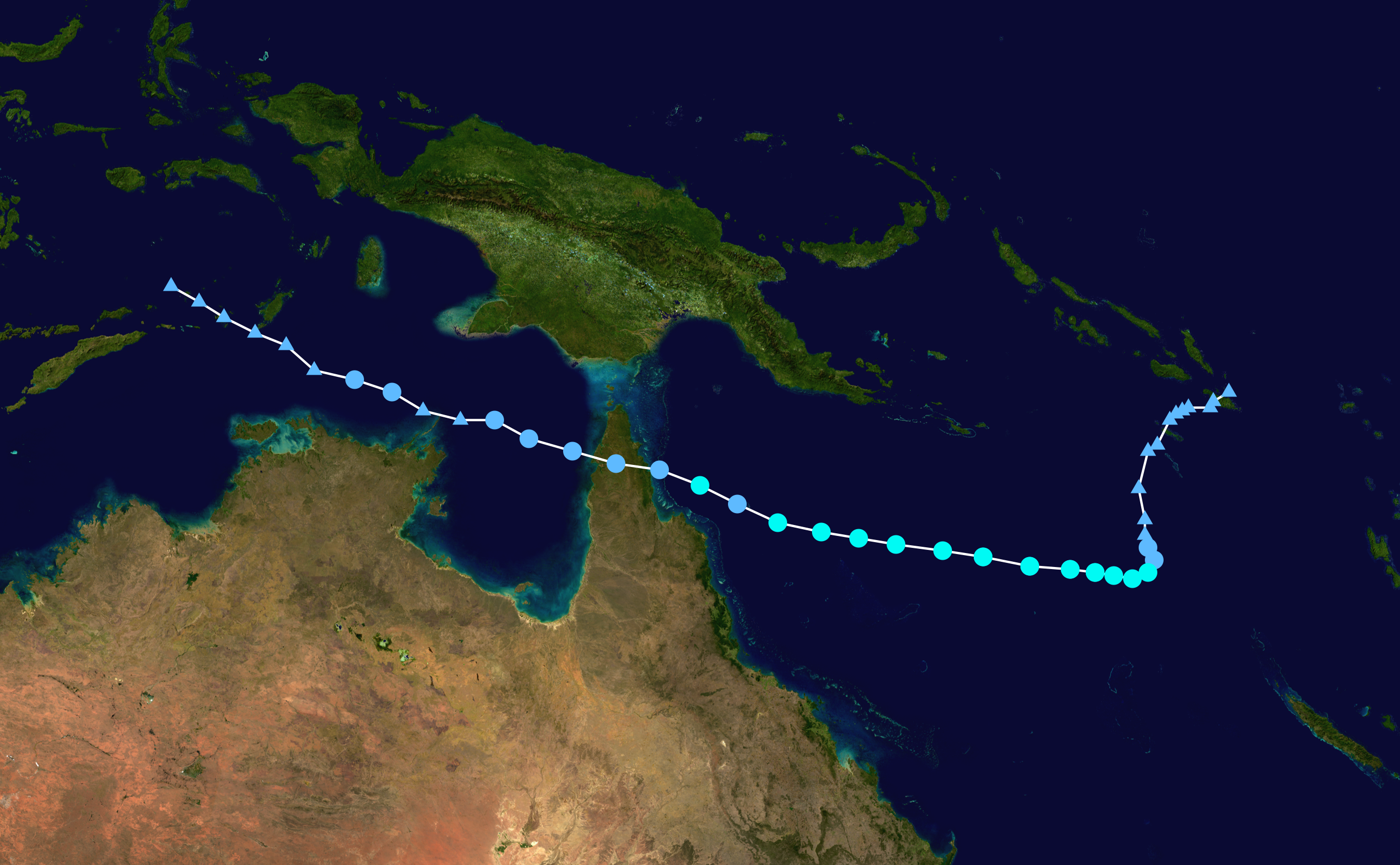 Track map of Tropical Cyclone Ann of the 2018-19 Australian region cyclone season. The points show the location of the storm at 6-hour intervals. The colour represents the storm's maximum sustained wind speeds as classified in the Saffir–Simpson scale (see below), and the shape of the data points represent the nature of the storm, according to the legend below. Saffir–Simpson scale Tropical depression≤38 mph≤62 km/h Category 3111–129 mph178–208 km/h Tropical storm39–73 mph63–118 km/h Category 4130–156 mph209–251 km/h Category 174–95 mph119–153 km/h Category 5≥157 mph≥252 km/h Category 296–110 mph154–177 km/h Unknown Storm type Tropical cyclone Subtropical cyclone Extratropical cyclone / Remnant low / Tropical disturbance